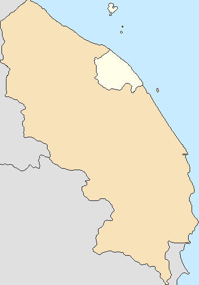 Location map of Kuala Terengganu, the capital city of the Malaysian state of Terengganu.